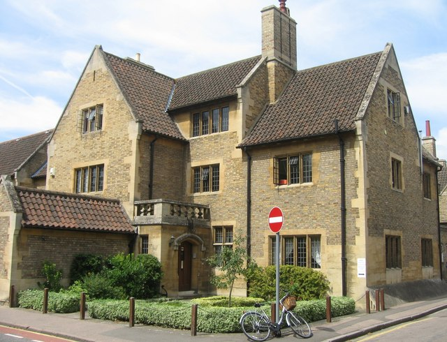 Corner of Bateman / St Eligius Street